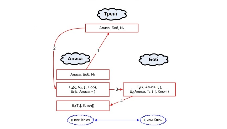 Графическое описание криптографического протокола распространения ключей Kerberos